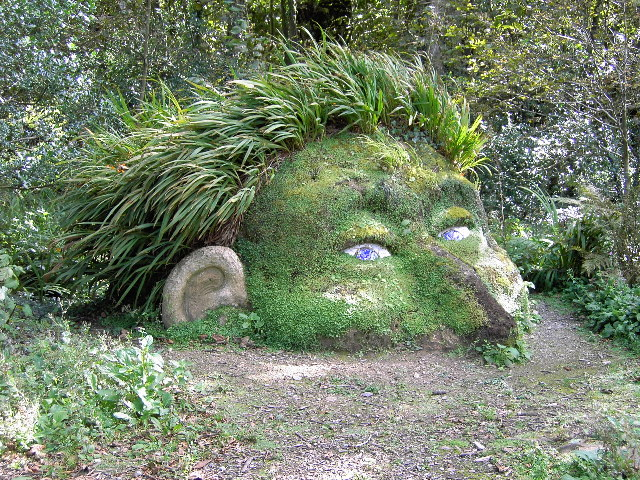 Living Sculpture. Lost Gardens of Heligan